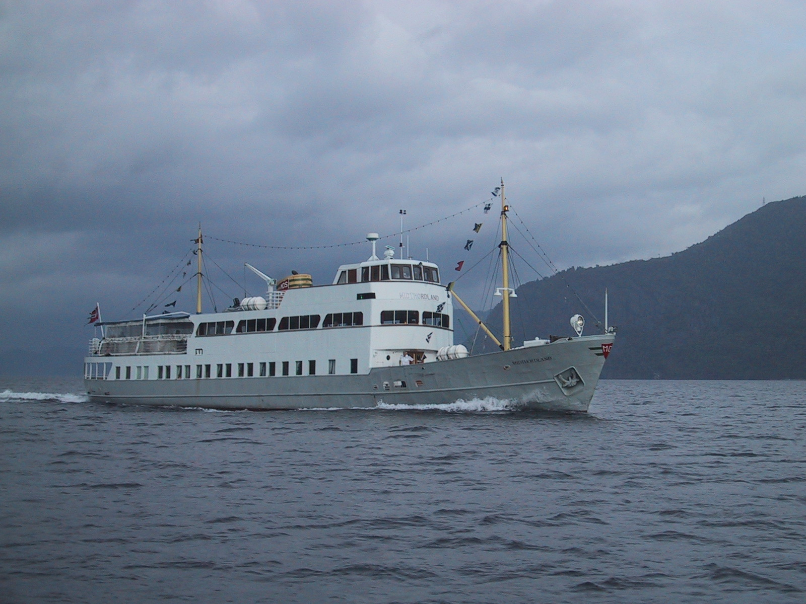 MS Midthordland in Ytre Arna, Bergen, Norway in 2004